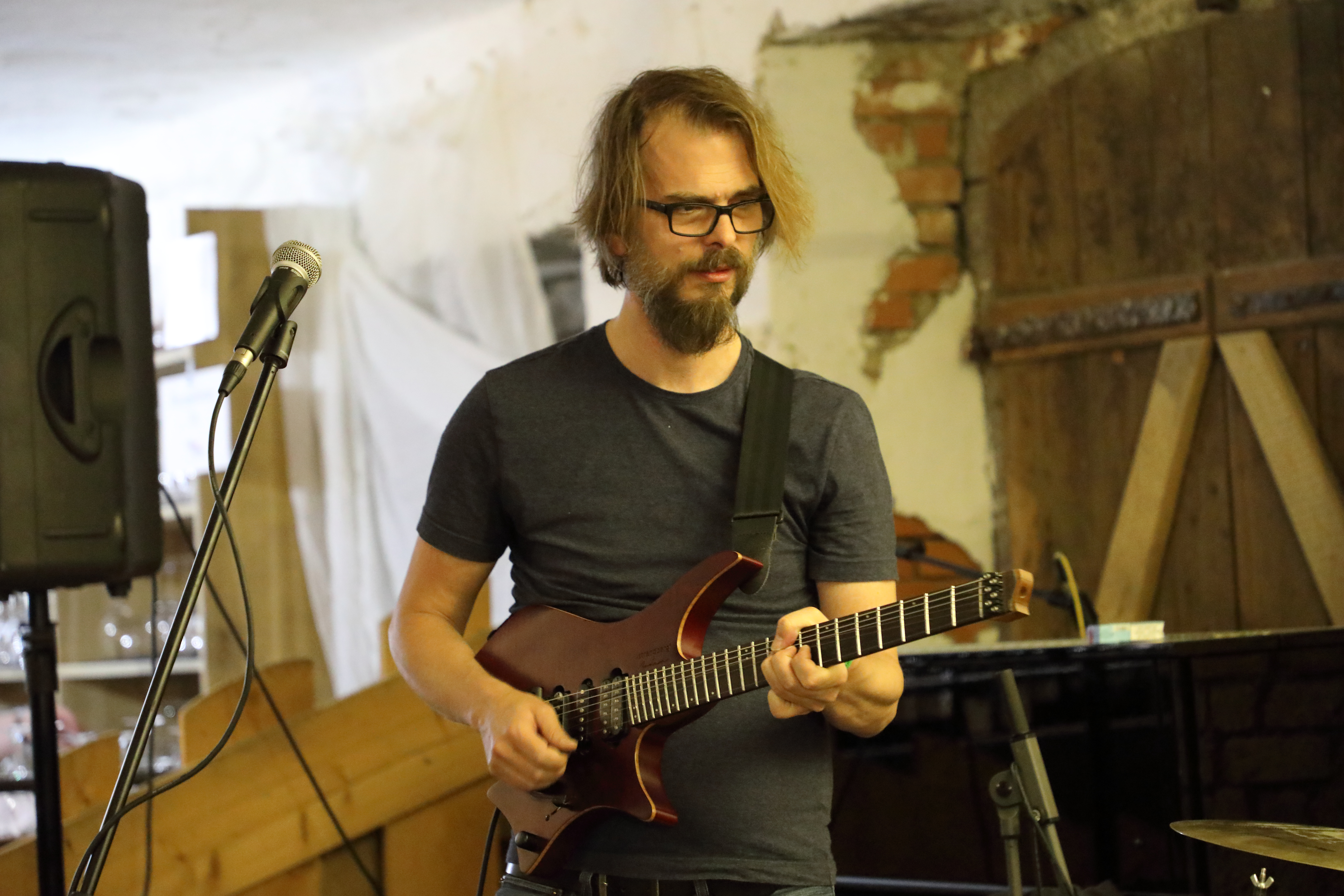 FAT - Fabulous Austrian Trio at INNtöne Jazzfestival 2019. FAT are Alex Machacek (g), Raphael Preuschl (b) & Herbert Pirker (dr).